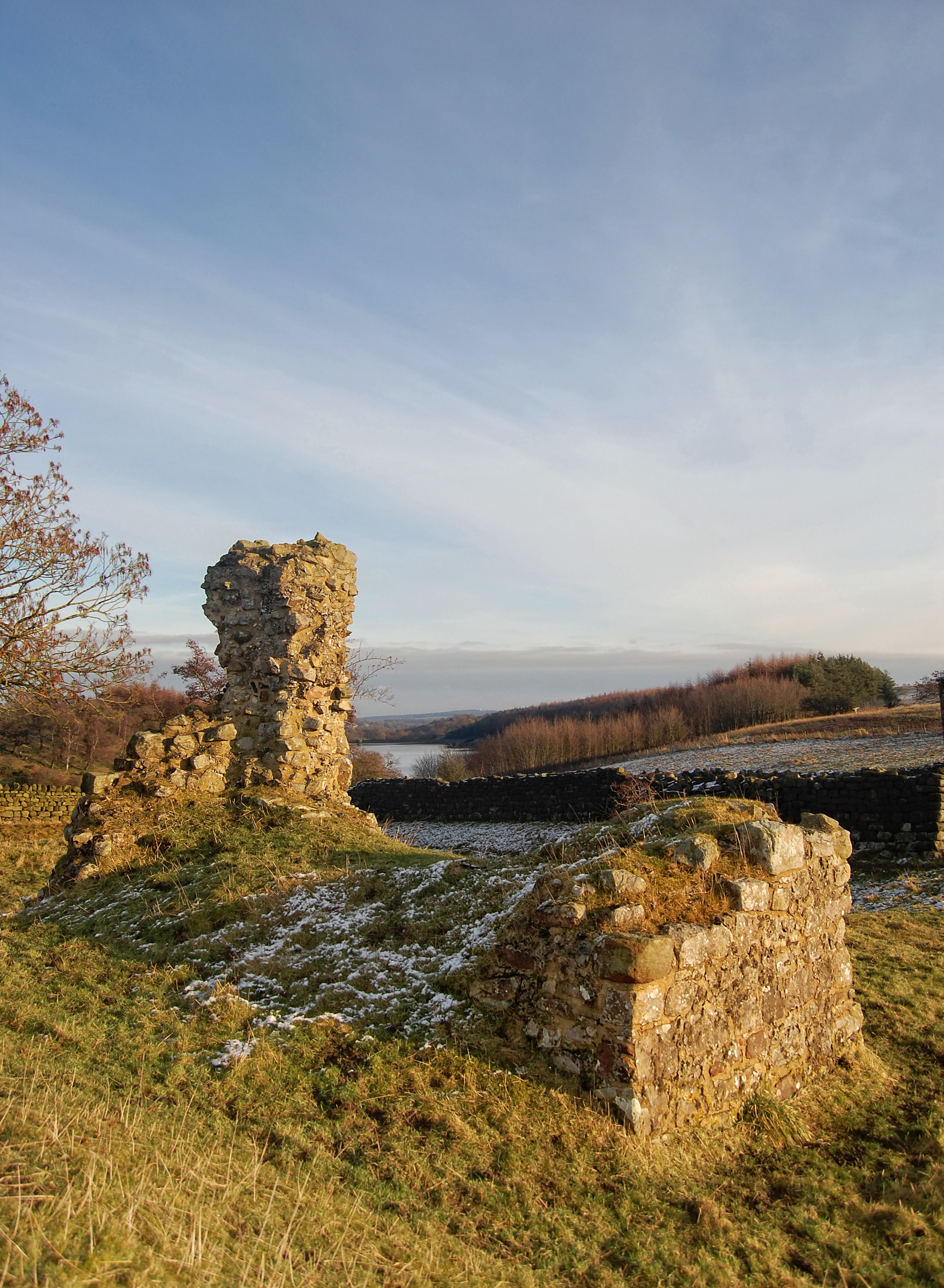 These humble walls and the trench of what was once a moat are all that remains of the ancient building in Haverah Park, Yorkshire, known as 'John o' Gaunt's Castle'. Whilst grandly named, the castle was more of a forest lodge, for the residence of the park-keeper and his assistant forest rangers; strong enough to repel the attacks of any band of outlaws which might harbour in the forest. Although small in size, it probably played host to King Edward II at some time around the year 1323.